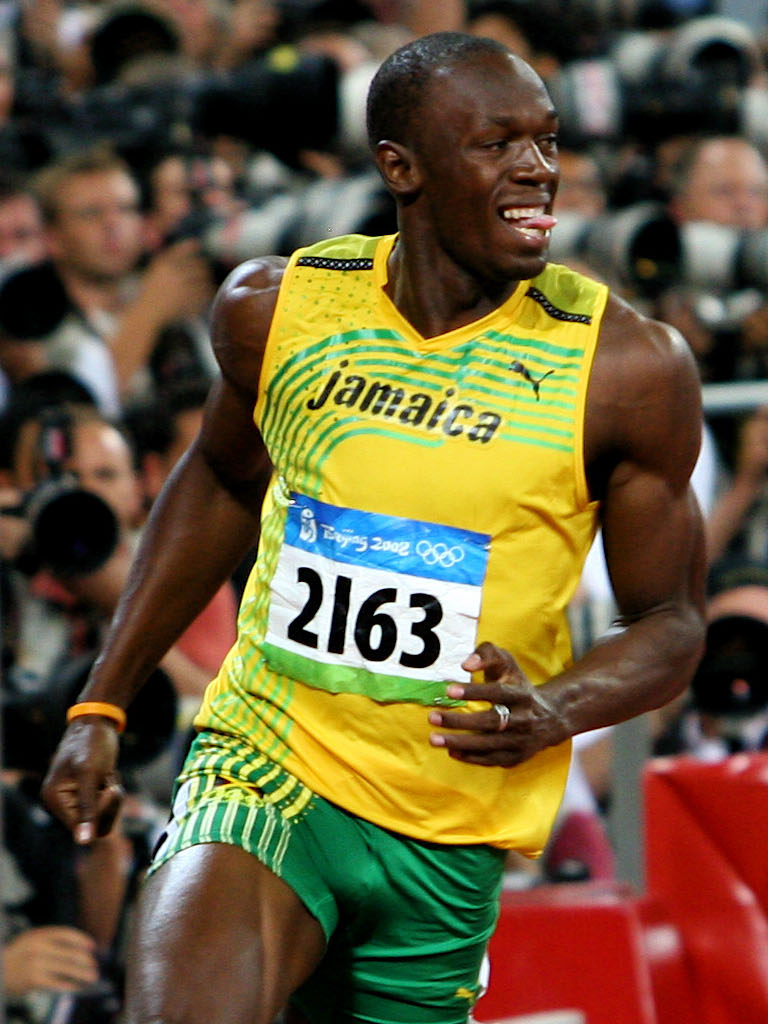 Usain Bolt in celebration after his 100m victory at Beijing Olympics 2008. Literally seconds after Bolt crossed the line at the Beijing Olympic Games men's 100 meters to break the world record...like maybe 1 or 2 seconds.